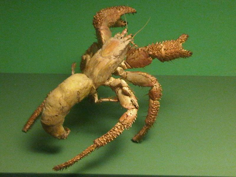 Dardanus arrosor at the National Museum of Natural History, Vilhena Palace, Republic of Malta.